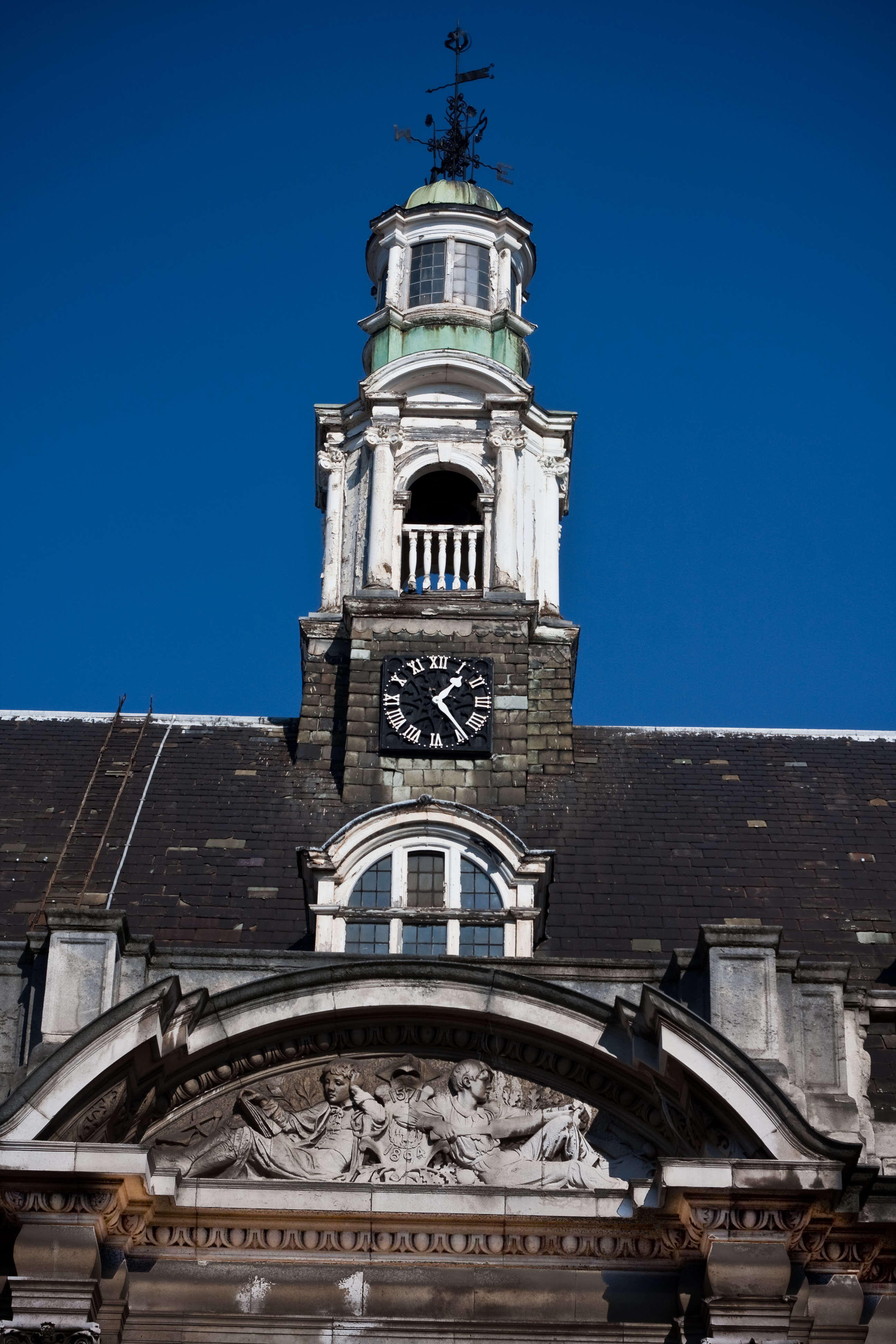 The clock tower of the former St Olave's Grammar School near Tower Bridge in London. The building is now occupied by Berkeley Homes.